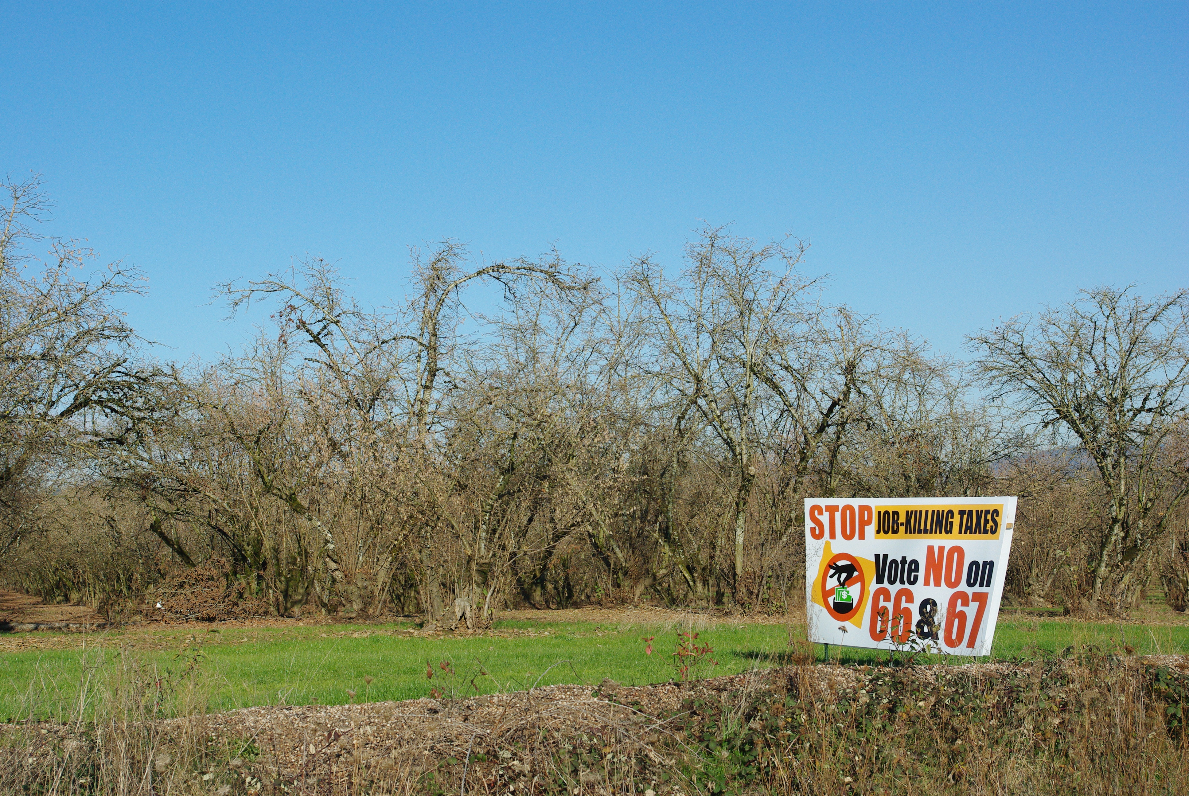 Sign advocating a no vote on Oregon Ballot Measures 66 and 67 (2010). Sign may be too simple to be copyrighted.